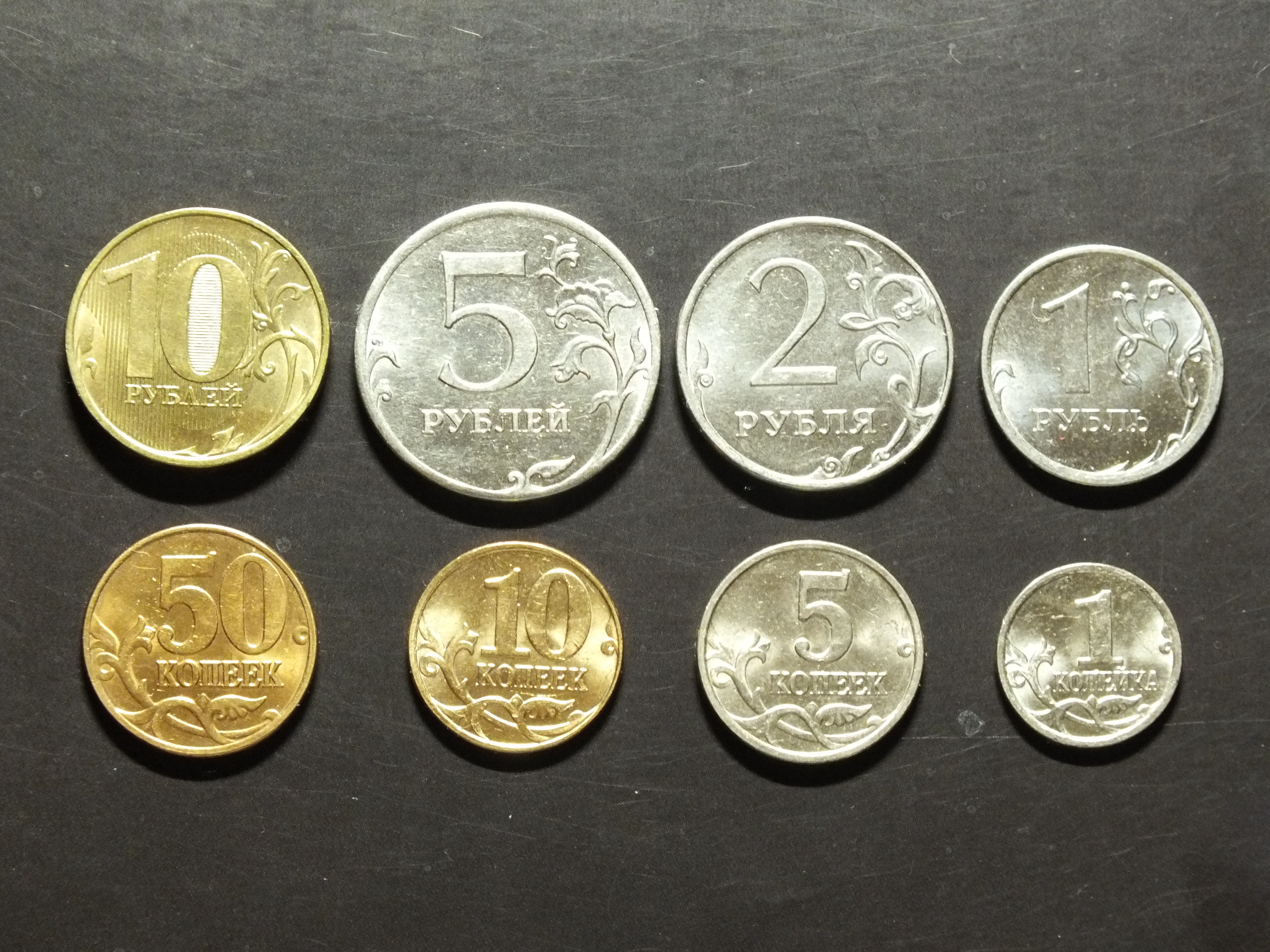 Russian ruble. All 8 coins (from 10 rubles to 1 copek) in 2014.